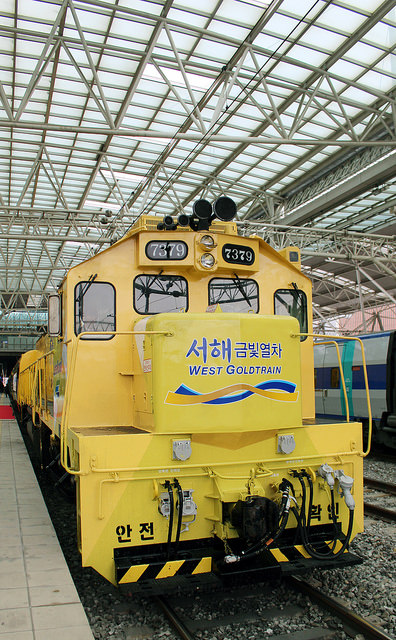 G-Train, West Gold Train (Korail) January 29, 2015 Ministry of Culture, Sports and Tourism Korean Culture and Information Service ( Wi Tack-whan 2015-01-29 문화체육관광부 해외문화홍보원 코리아넷 위택환